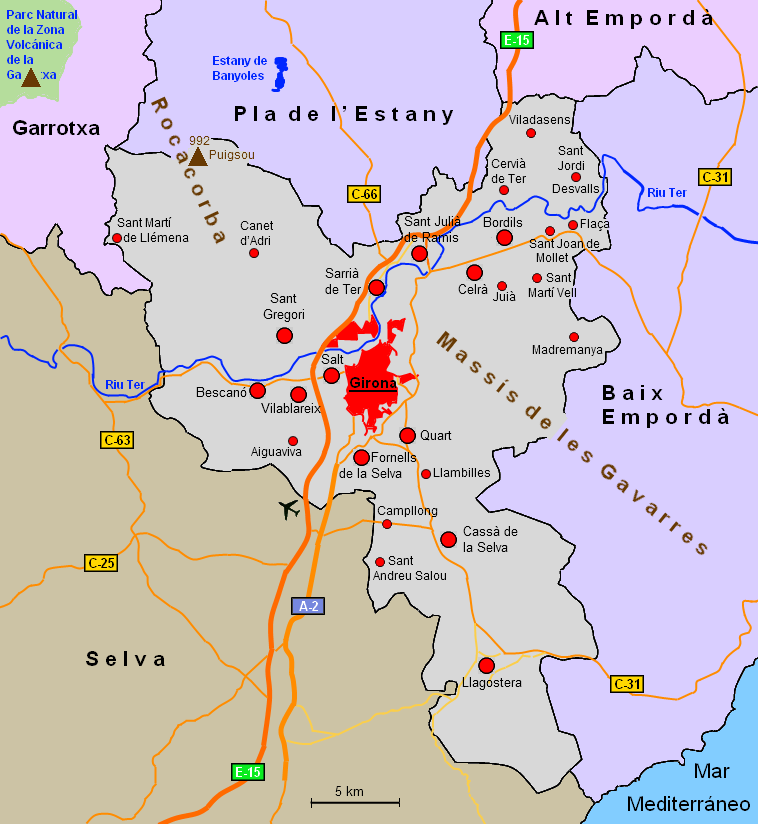 Map of the comarca Gironès, Catalonia, Spain